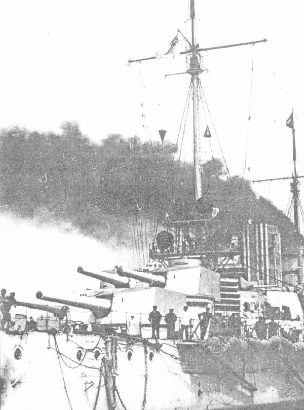 SMS Goeben, main battle guns and distanz meter